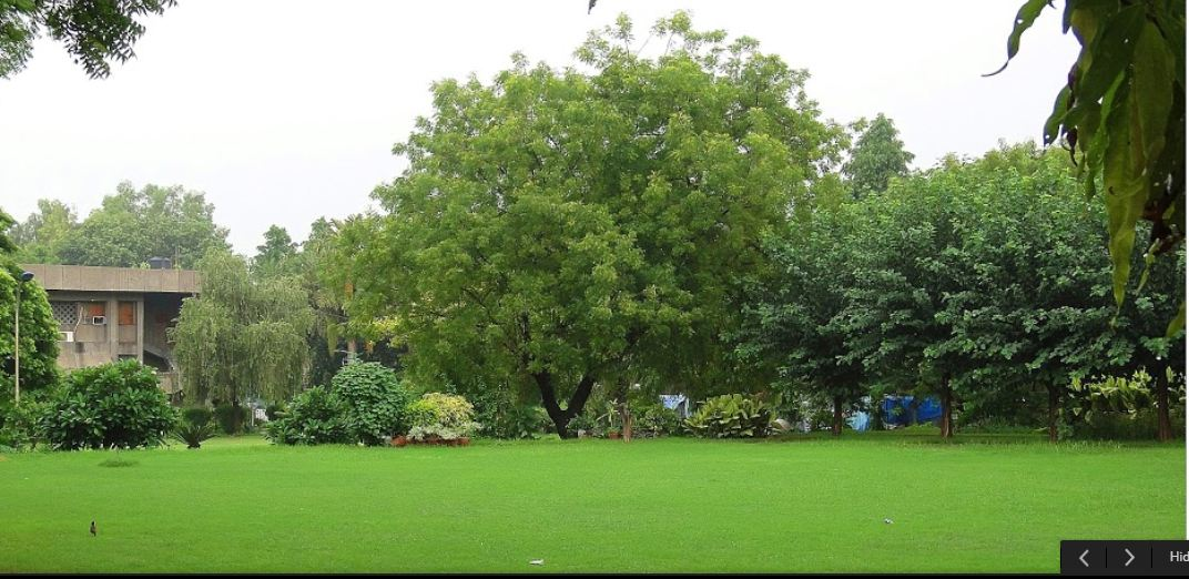 Greenery in the college.